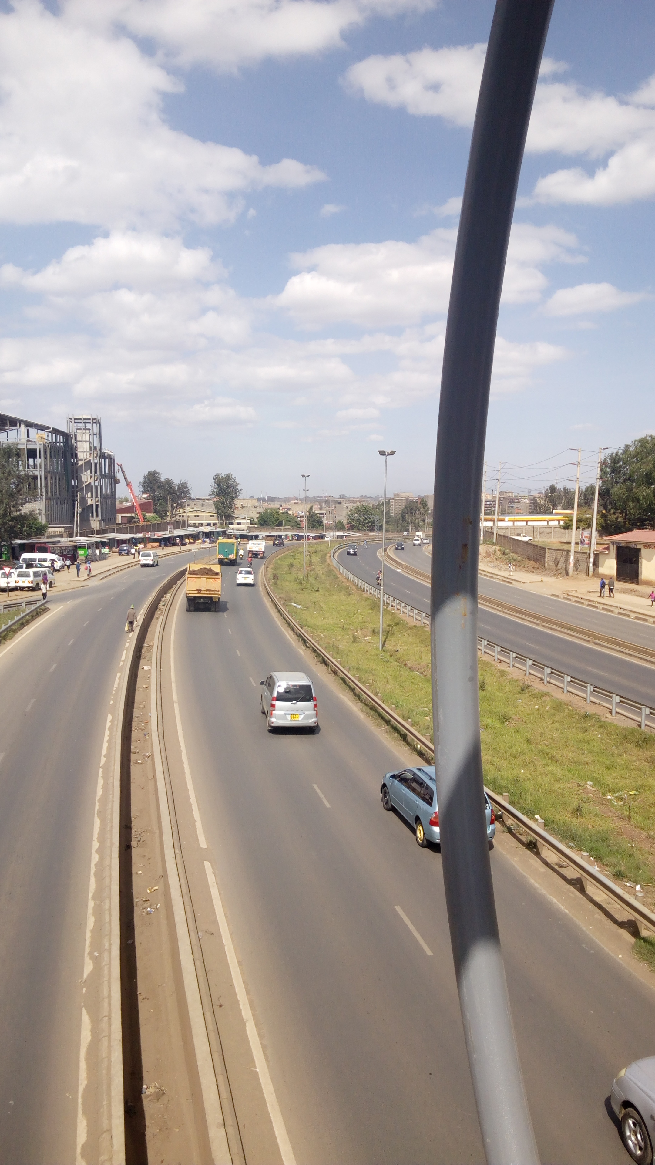 The Outer Ring Road is one of the newly constructed roads aimed at decongesting the capital of Kenya, Nairobi by redirecting traffic away from the CBD. Here, light traffic is seen from the footbridge near the Allsoaps area. The road is part of the Nairobi Metropolitan road networks commissioned by the former president. This is an image with the theme "Africa on the Move or Transport" from: Kenya